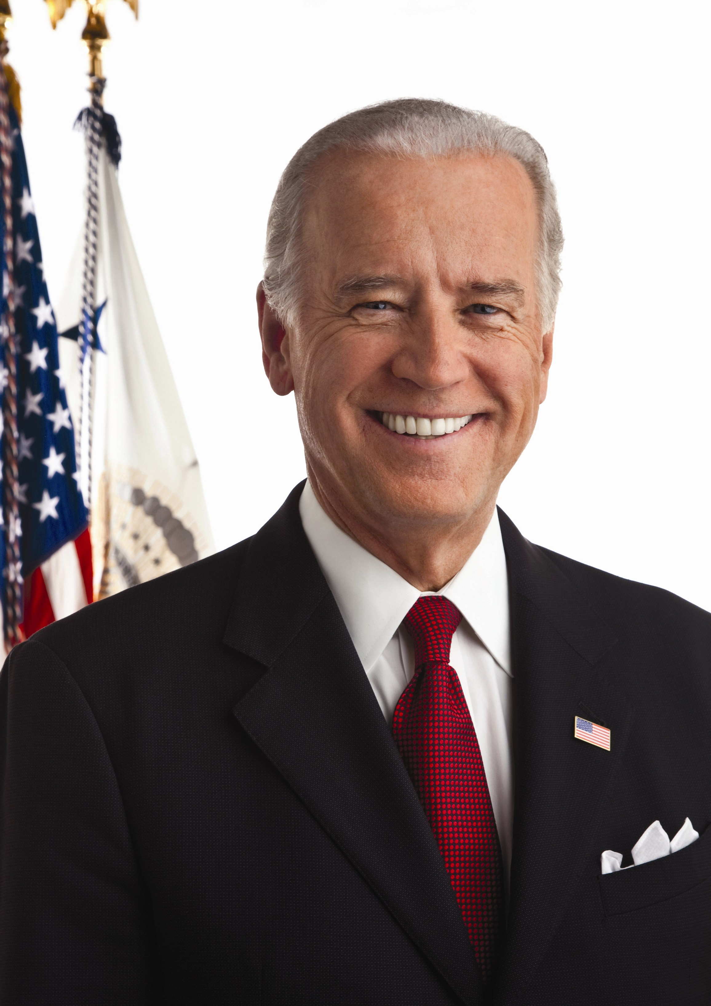 Official portrait of Vice President of the United States Joe Biden.